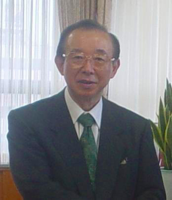 Shimane governor Nobuyoshi Sumita(澄田信義) Shimane governor who welcomes consul general Daniel Russell.